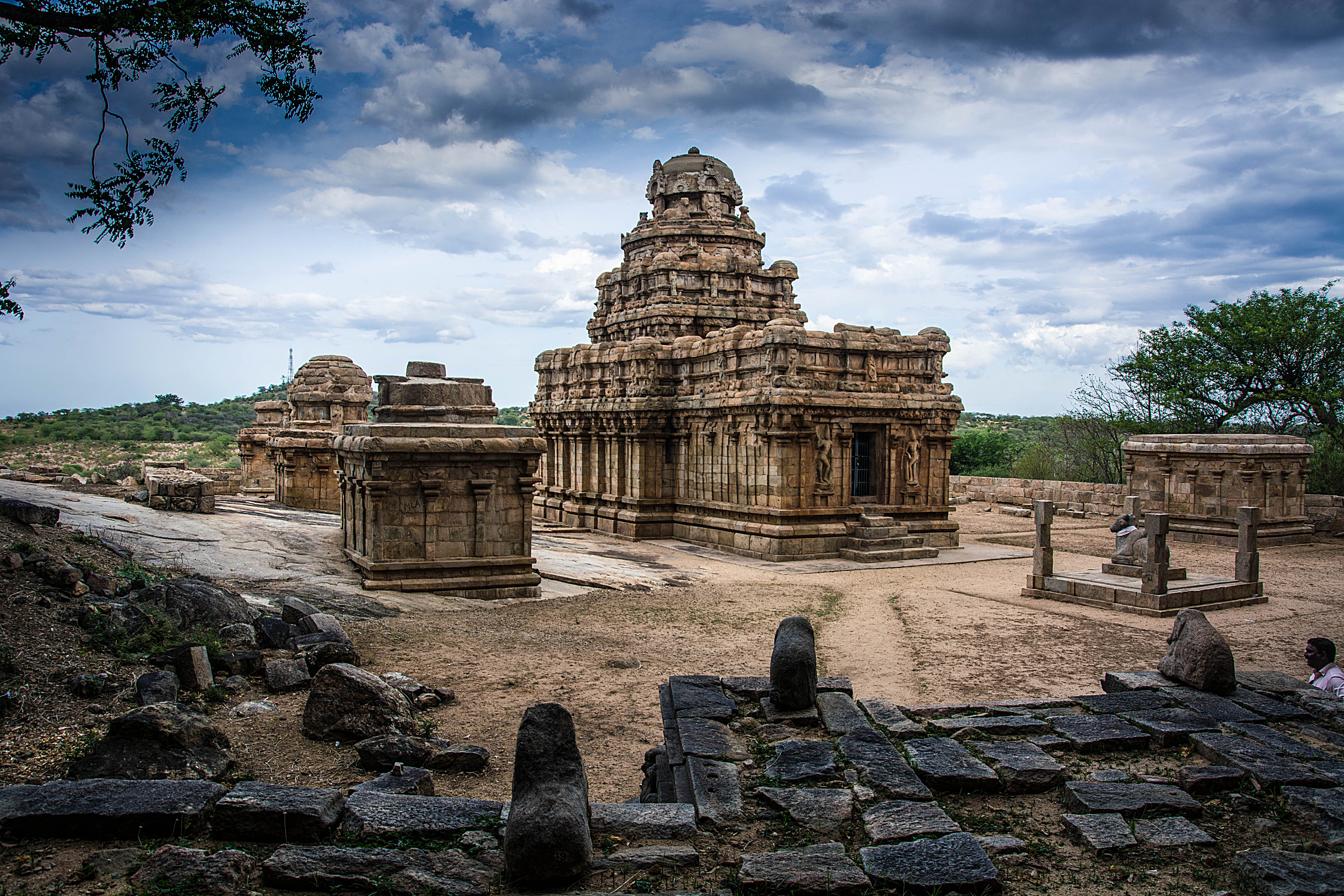 Vijayalayacholisvaram and the group of subshrines around it Narttamalai